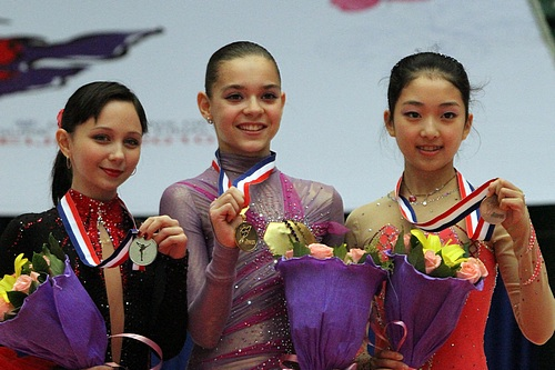 The ladie's podium at the 2010-2011 ISU Junior Grand Prix Final. From left: Elizaveta Tuktamysheva (2nd), Adelina Sotnikova (1st), Li Zijun(3rd).